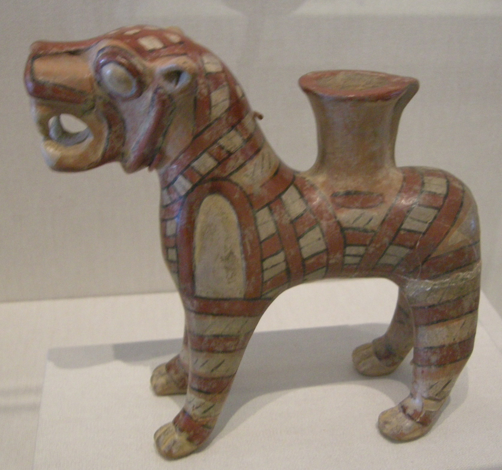 Lion-shaped rhyton (libation vessel), Anatolian, Kanish (K ültepe), karum period, terracotta, 1860-1718 BCE, California Palace of the Legion of Honor